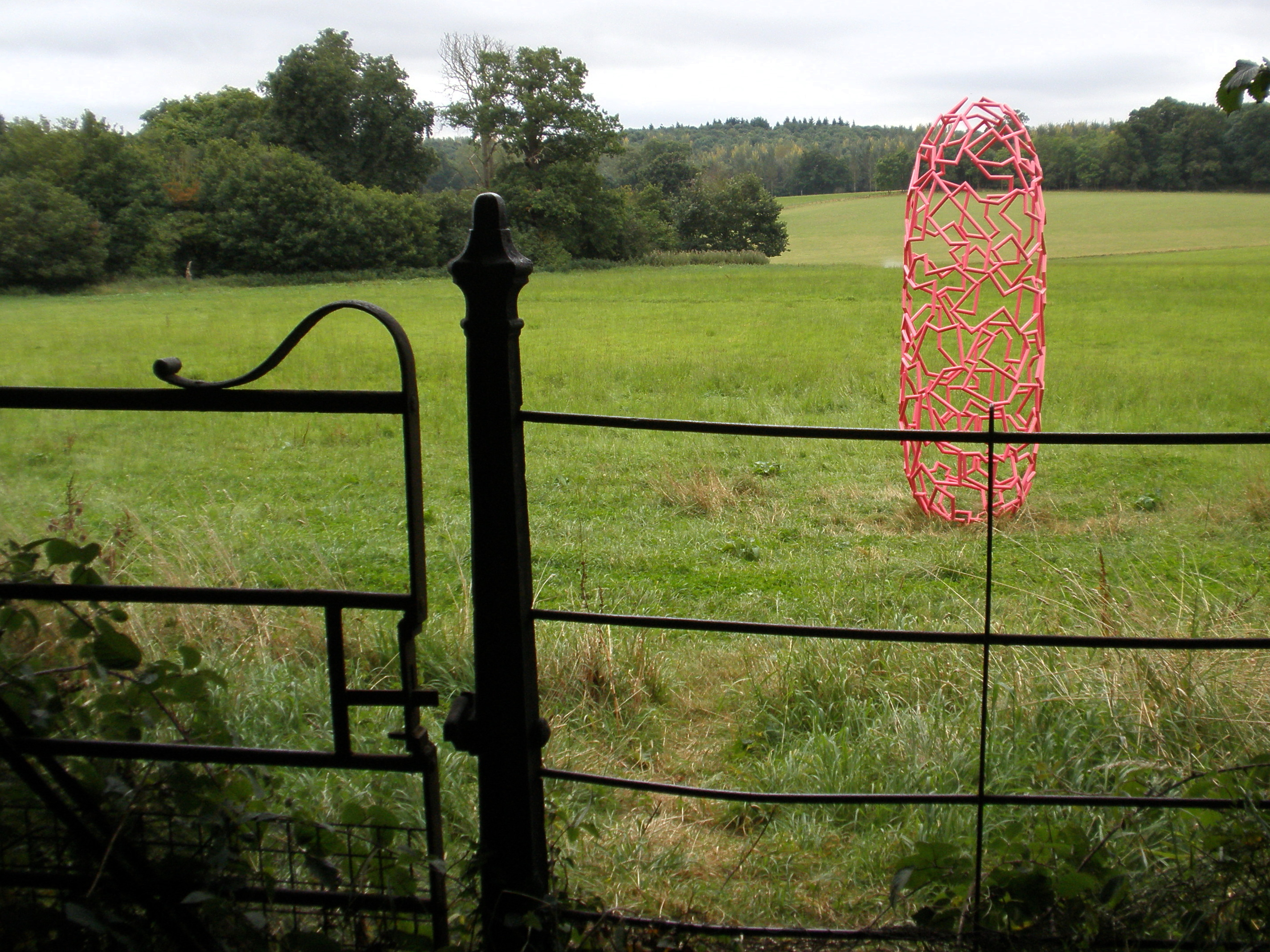 Ragley Hall is the family home of the 9th Marquess and Marchioness of Hertford and the seat of the Conway-Seymour family. The hall was designed in 1680 by Robert Hooke, friend of Sir Christopher Wren. It was completed in the 18th Century by James Gibbs who designed the Great Hall, the exceptional plasterwork in the main reception rooms and the impressive stable block in the 1750s and James Wyatt who added the central portico in 1780. The hall stands in four hundred acres of picturesque parkland landscaped by Lancelot 'Capability' Brown in the 18th Century, and twenty seven acres of formal gardens laid out by Robert Marnock in 1873. The park and gardens provide a spectacular and unique setting for the Jerwood Sculpture collection.